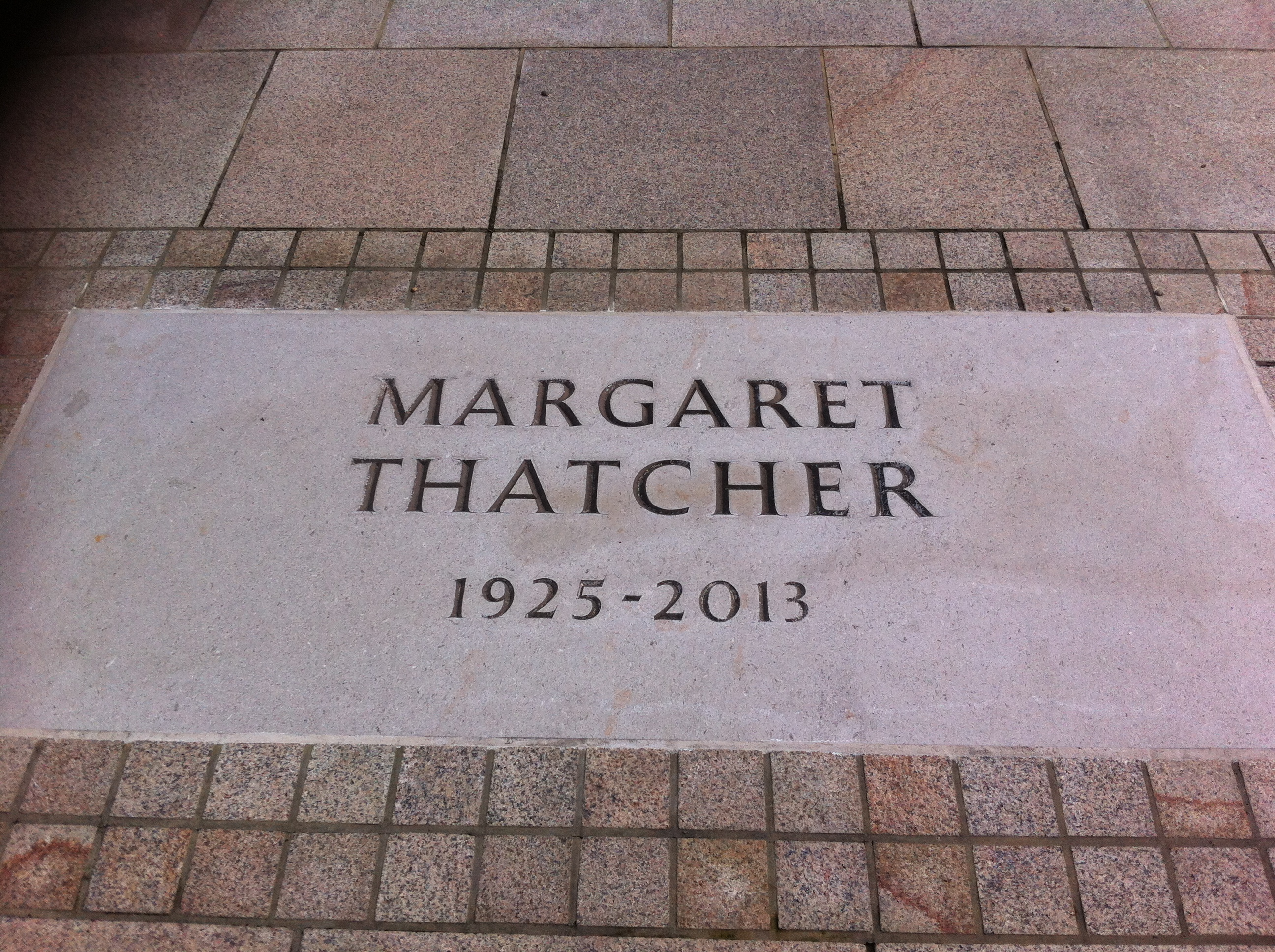 The grave of Margaret Thatcher and her hu